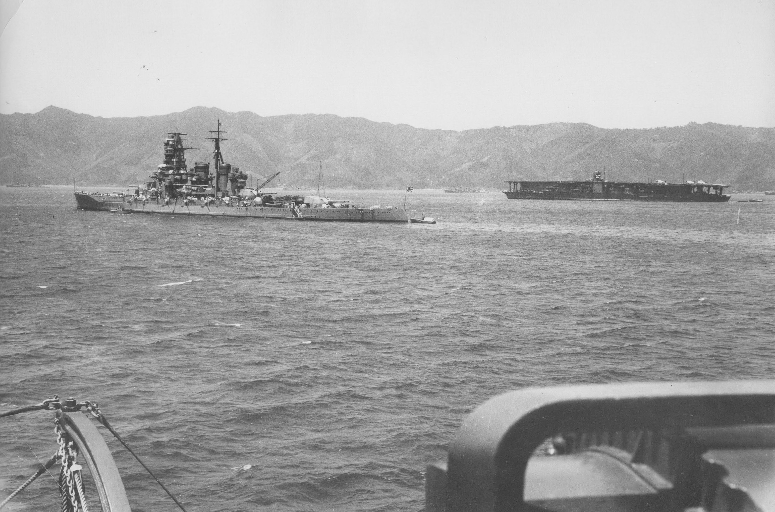 Imperial Japanese Navy battleship Kirishima (foreground) and aircraft carrier Akagi (background) near Sukumo Bay, Japan.